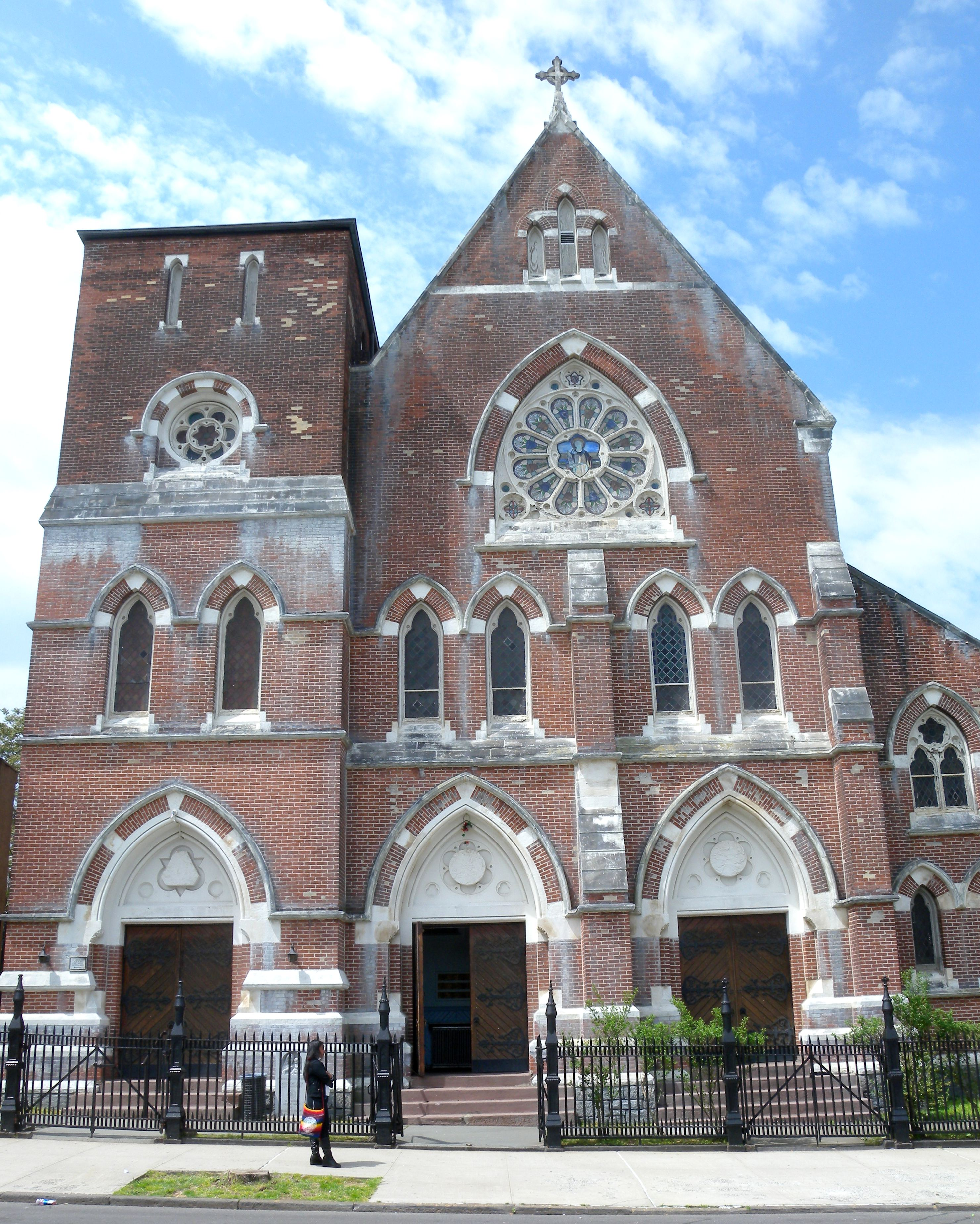 Looking west across Cleremont Avenue at back of Sacred Heart Parish church on a sunny midday.